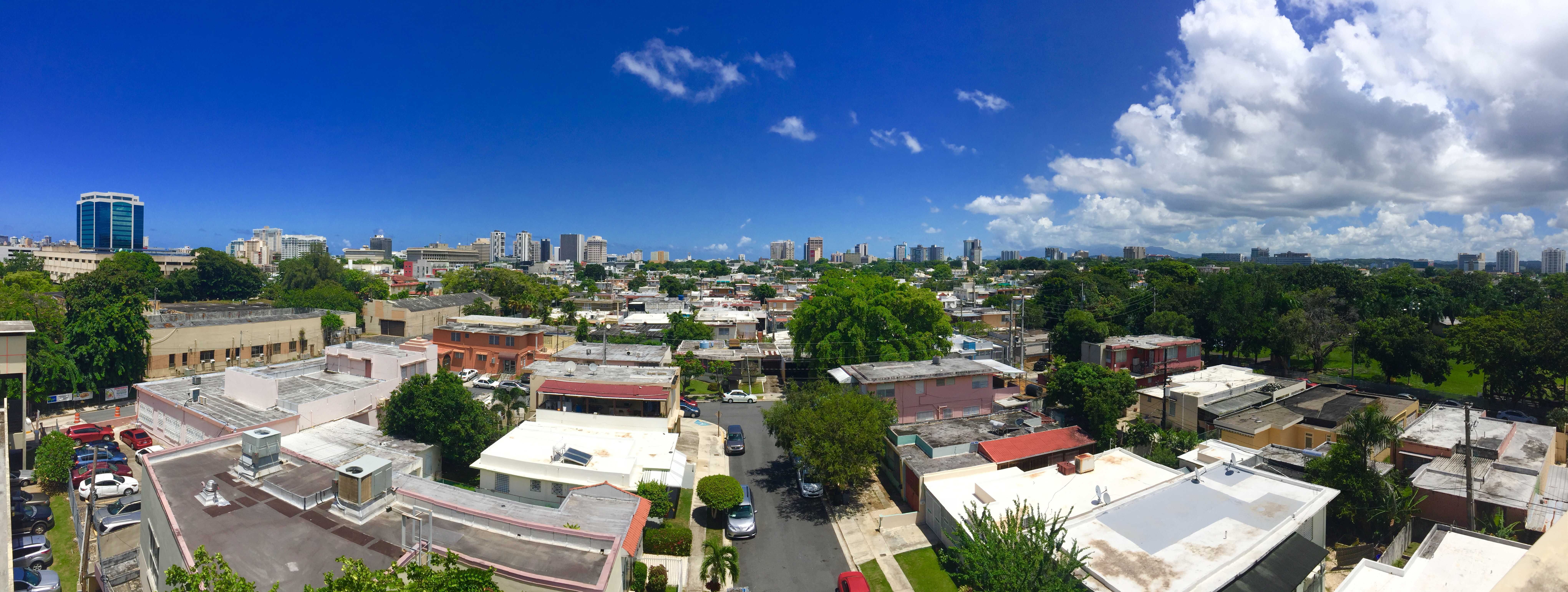 180° Panorama of the city of San Juan from Hato Rey to Río Piedras with El Yunke Rainforest in the horizon forming a cloud formation.